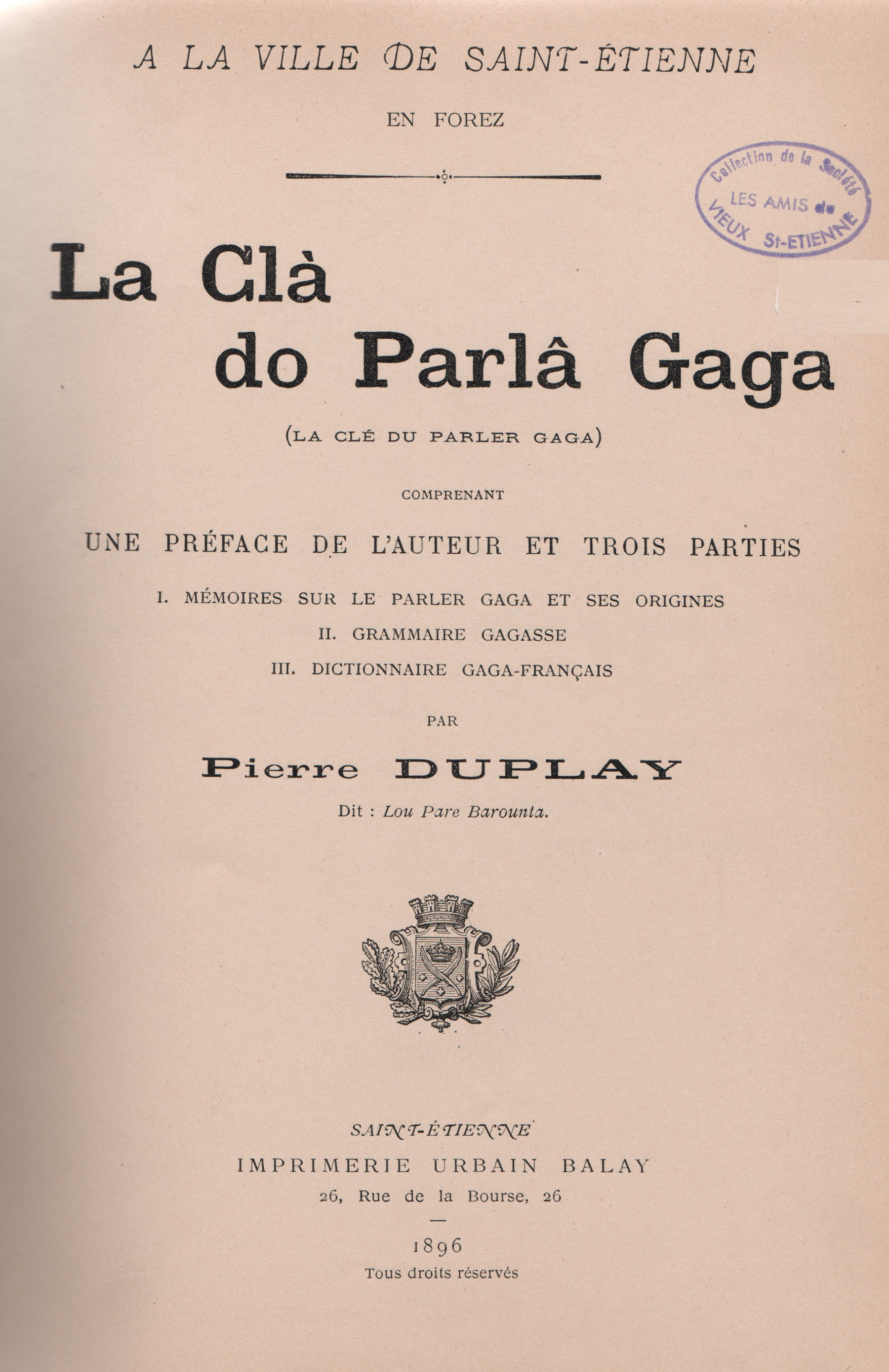 Front page of the dictionnary arpitan/french of the arpitan dialect of Saint-Étienne also called Gaga, edited in 1897